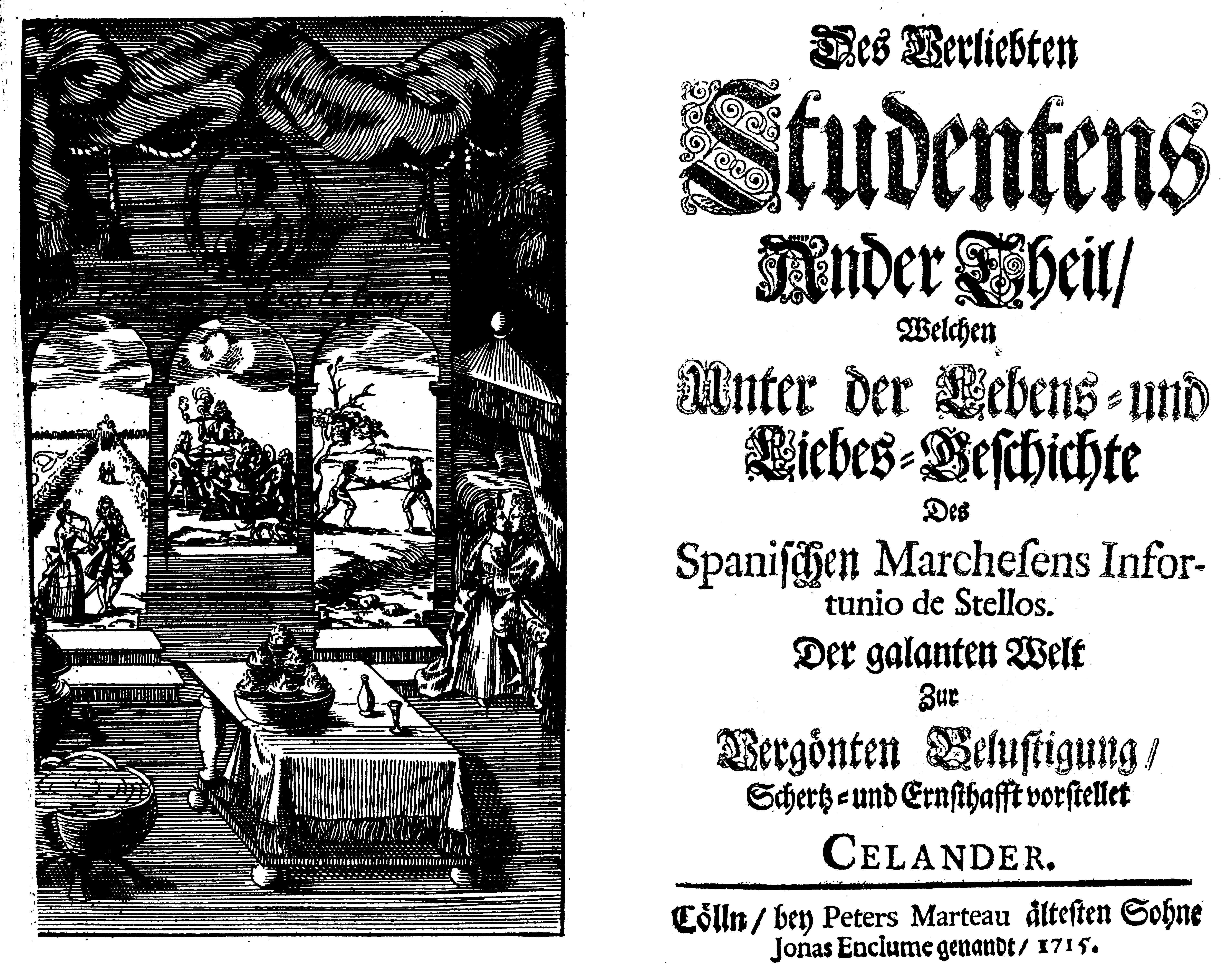 Title page of Des Verliebten Studentens ander Theil (1715)